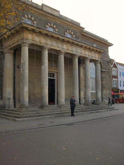 Salisbury - Town Hall This building dates from 1760 when it replaced a Tudor building which burnt down.